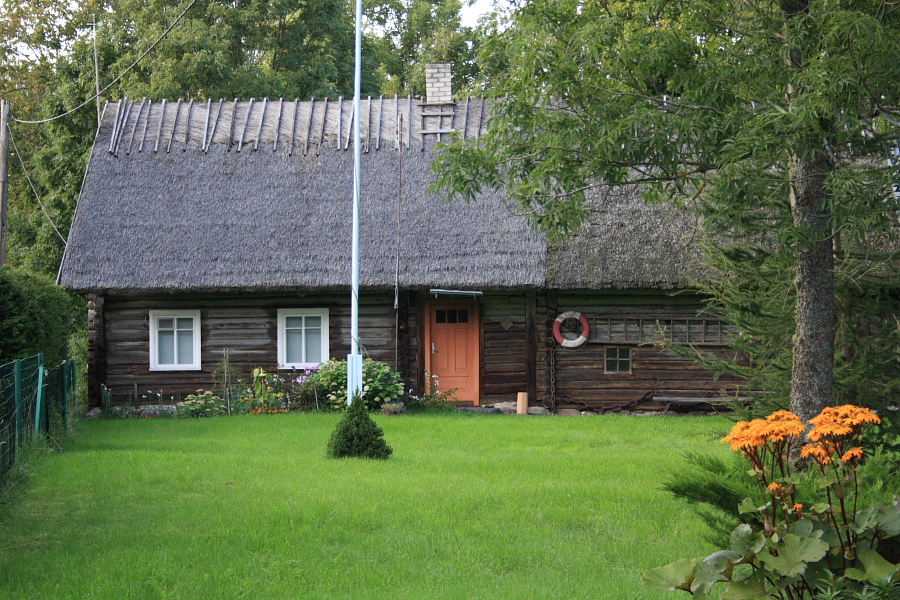 Old farmhouse in Tammela village on Hiiumaa island in Estonia